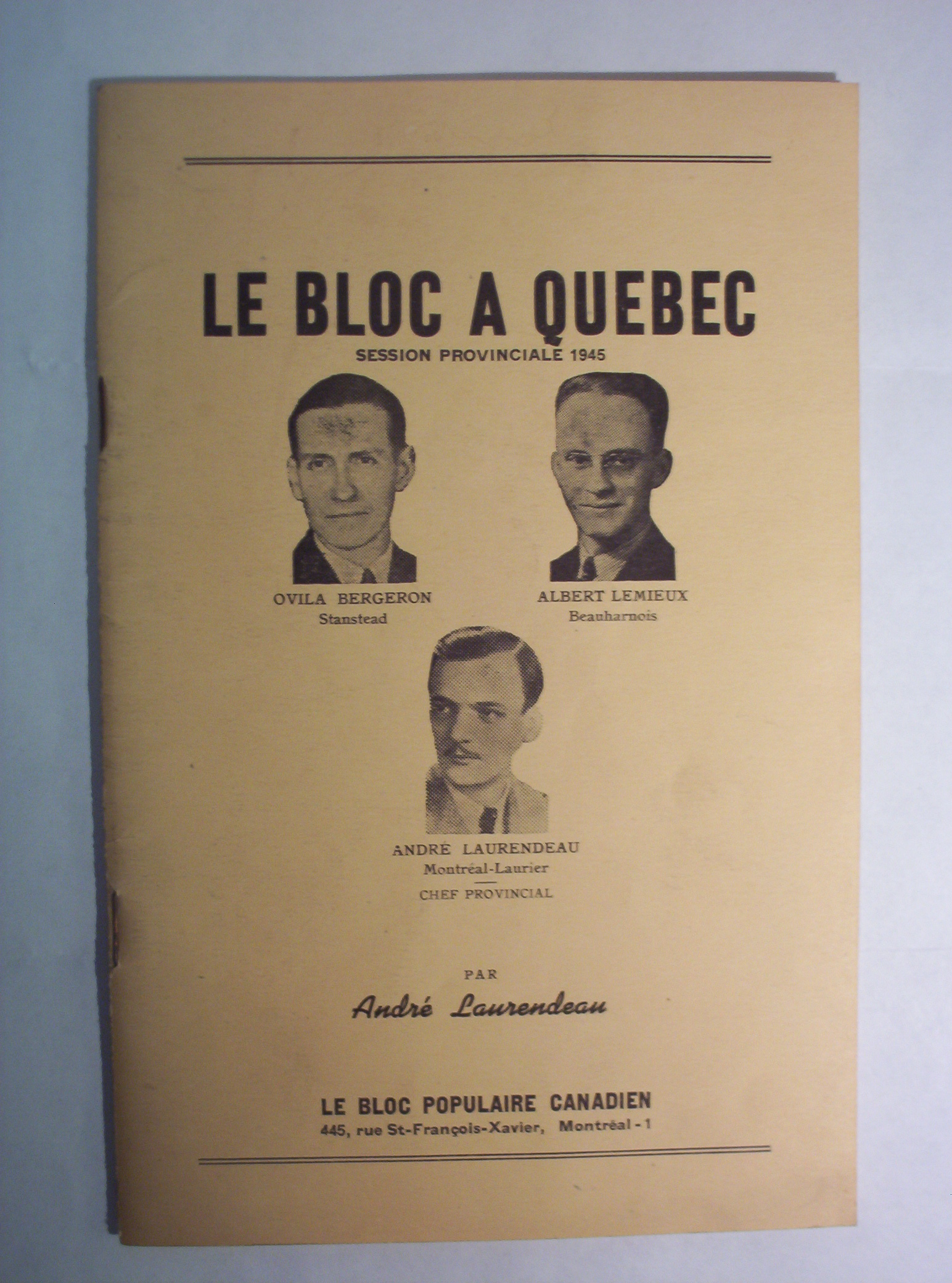 The Bloc Populaire's 1945 session journal, written by André Laurendeau